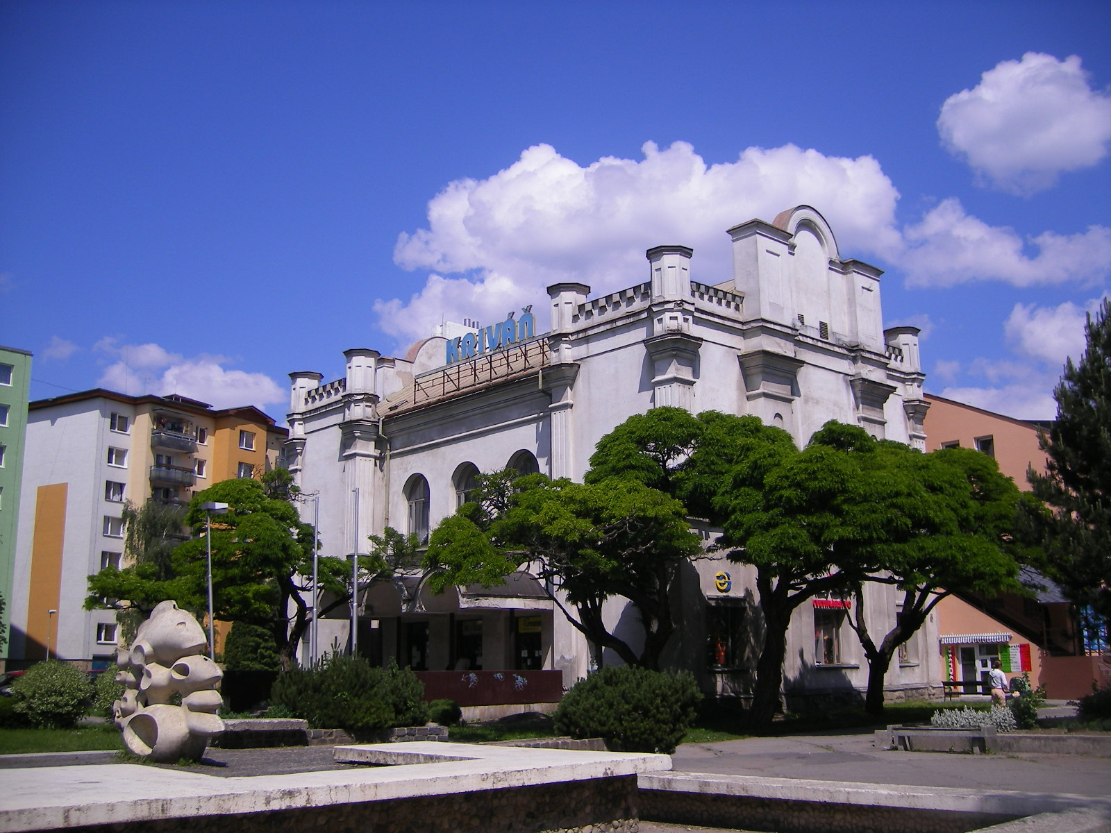 Vrútky